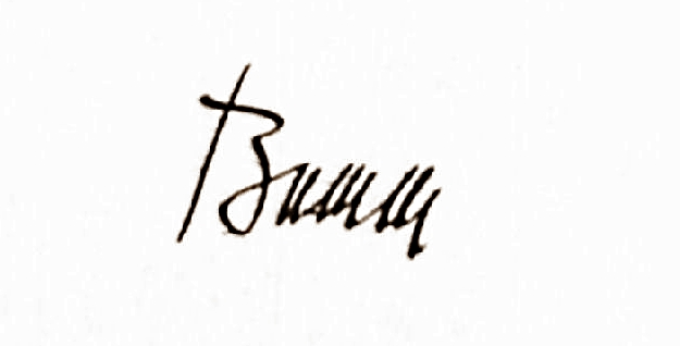 signature of Franz Bumm